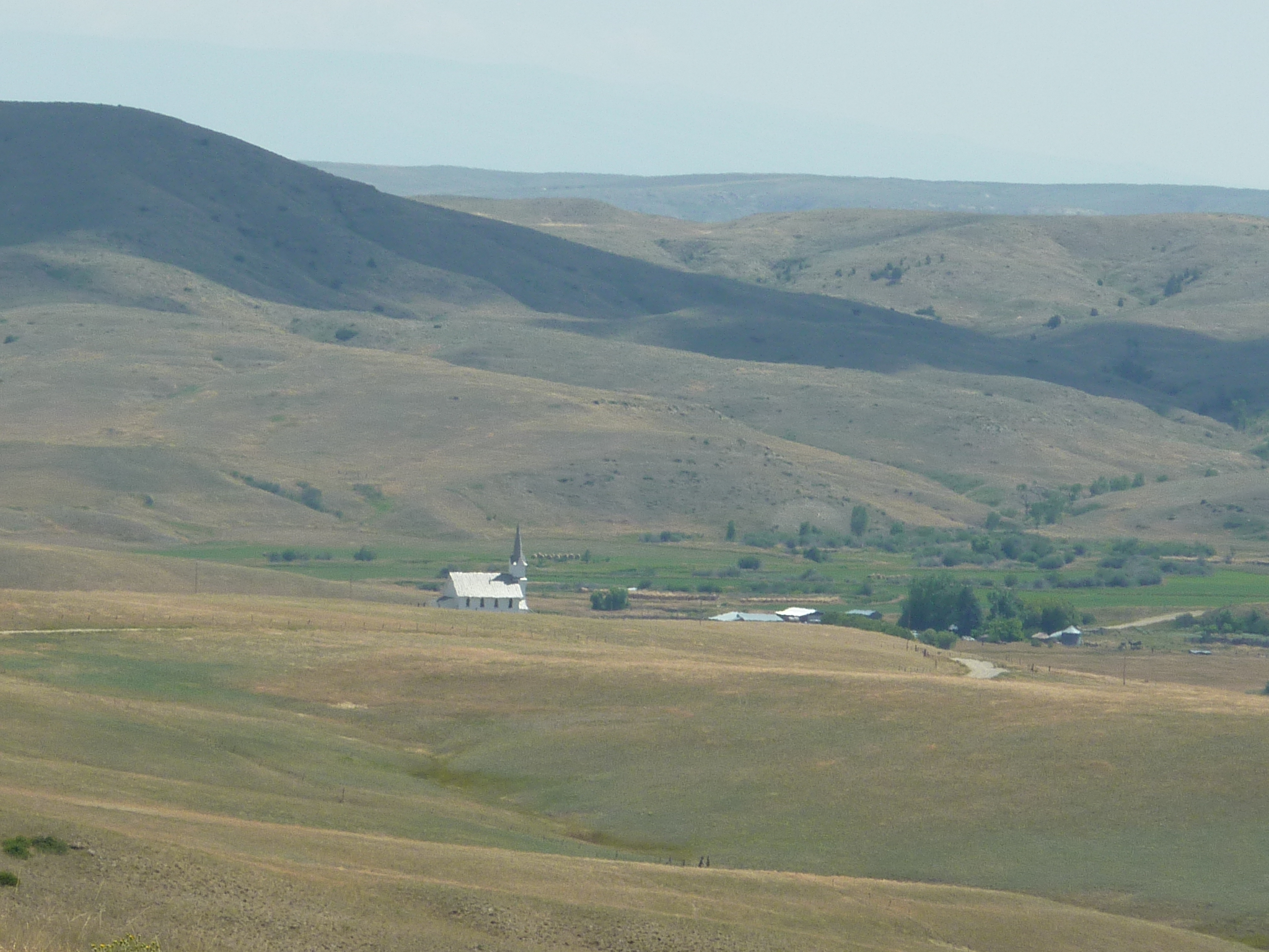 St Olaf Lutheran Church, near Red Lodge, Montana